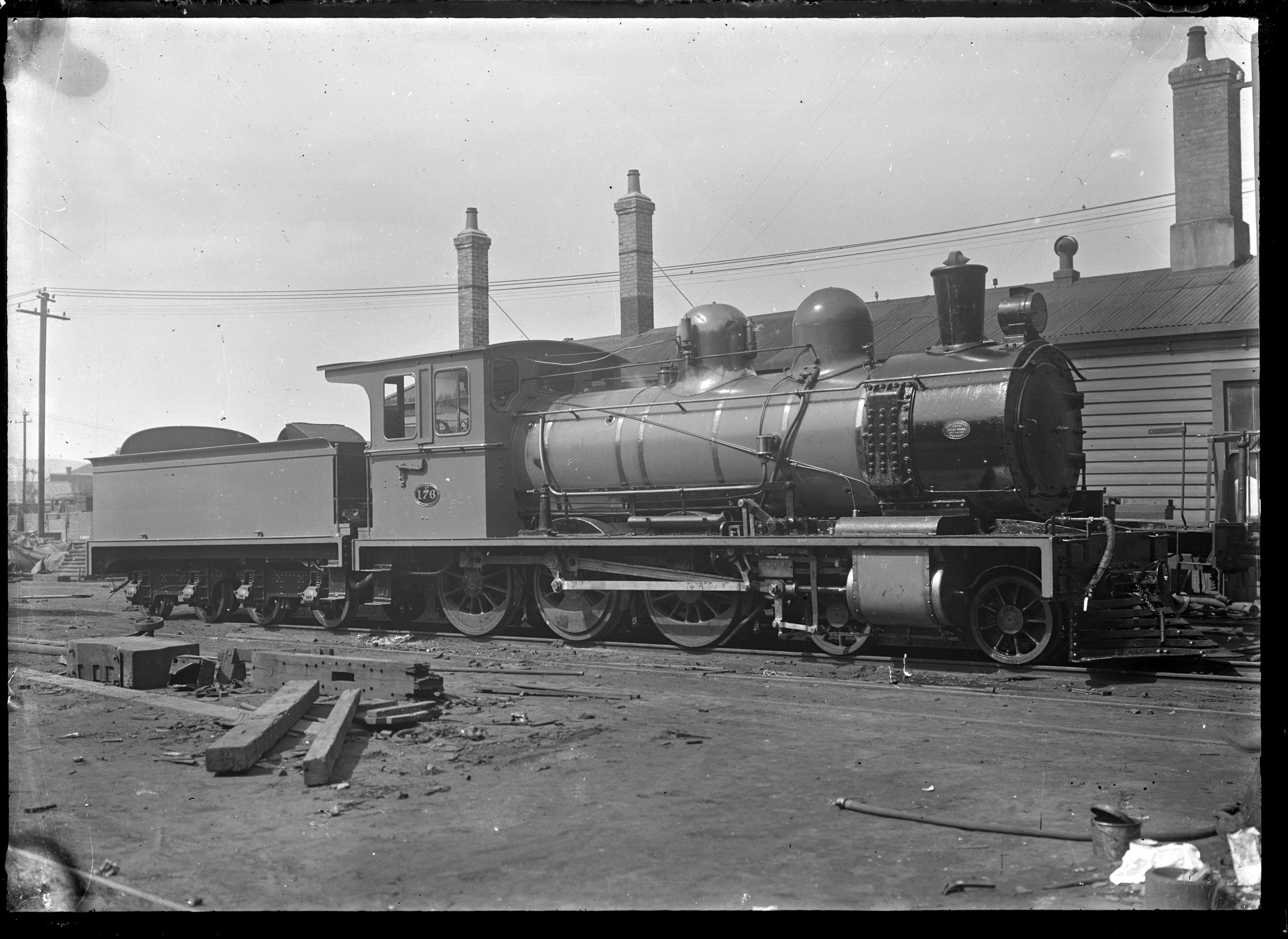 "Ua" 176 steam locomotive, type 4-6-0, built by Sharp Stewart. Location unknown. Photograph taken by Albert Percy Godber, between 1900 and 1934.